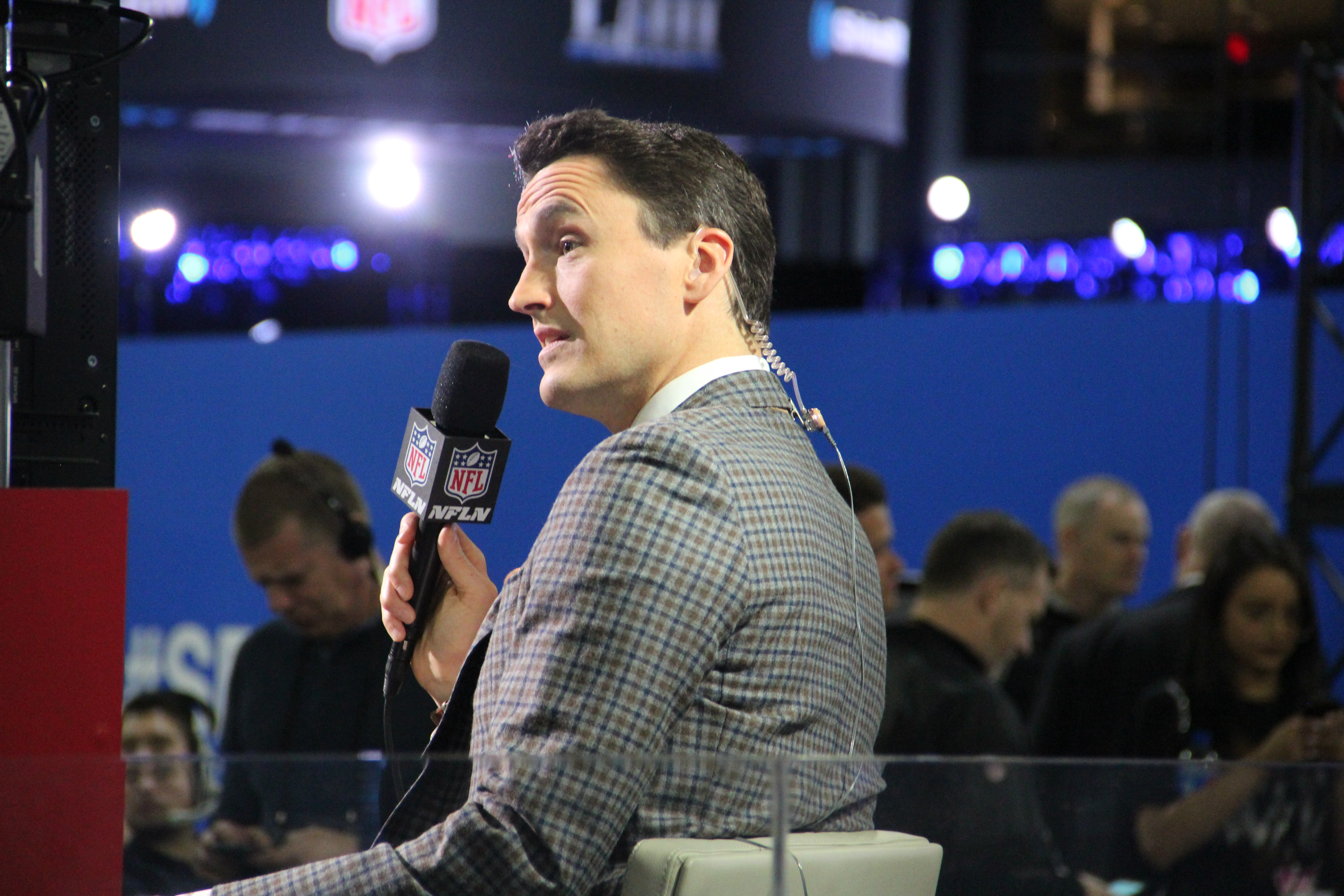 Rhett Lewis, Jan 2019